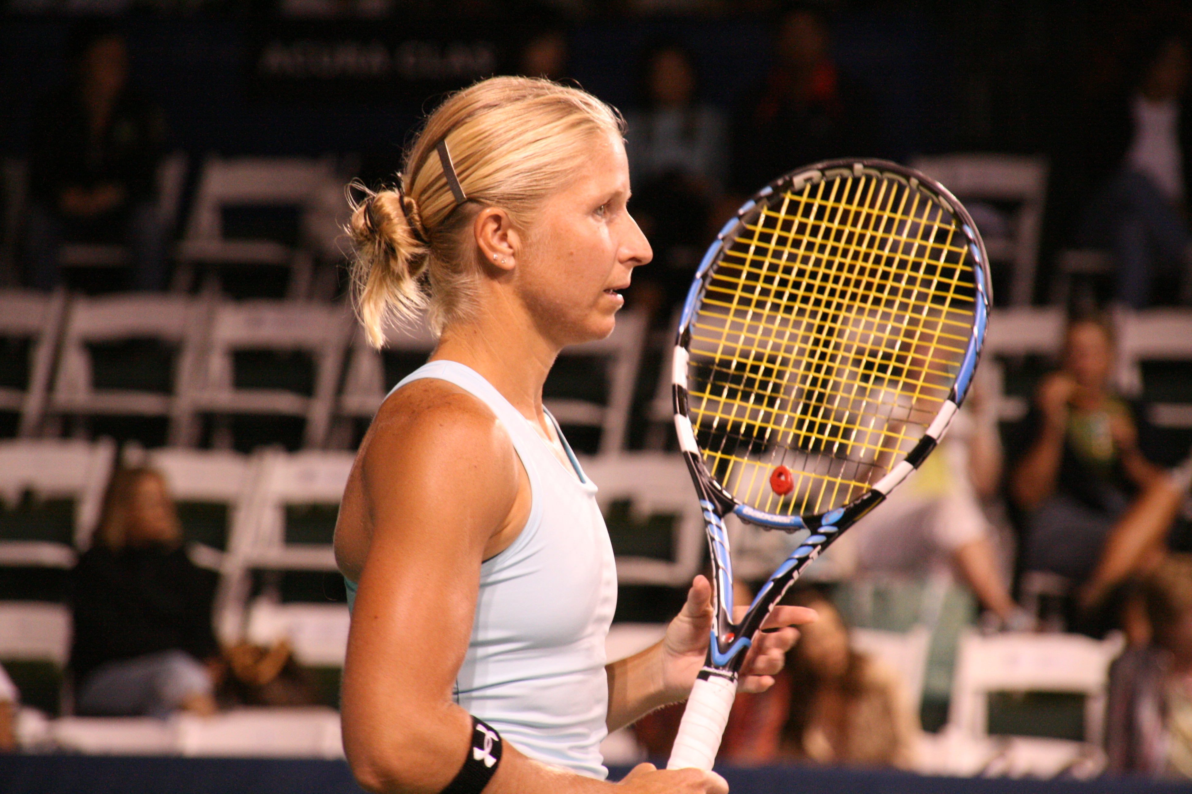 Jill Craybas at 2007 Acura Classic tennis tournament